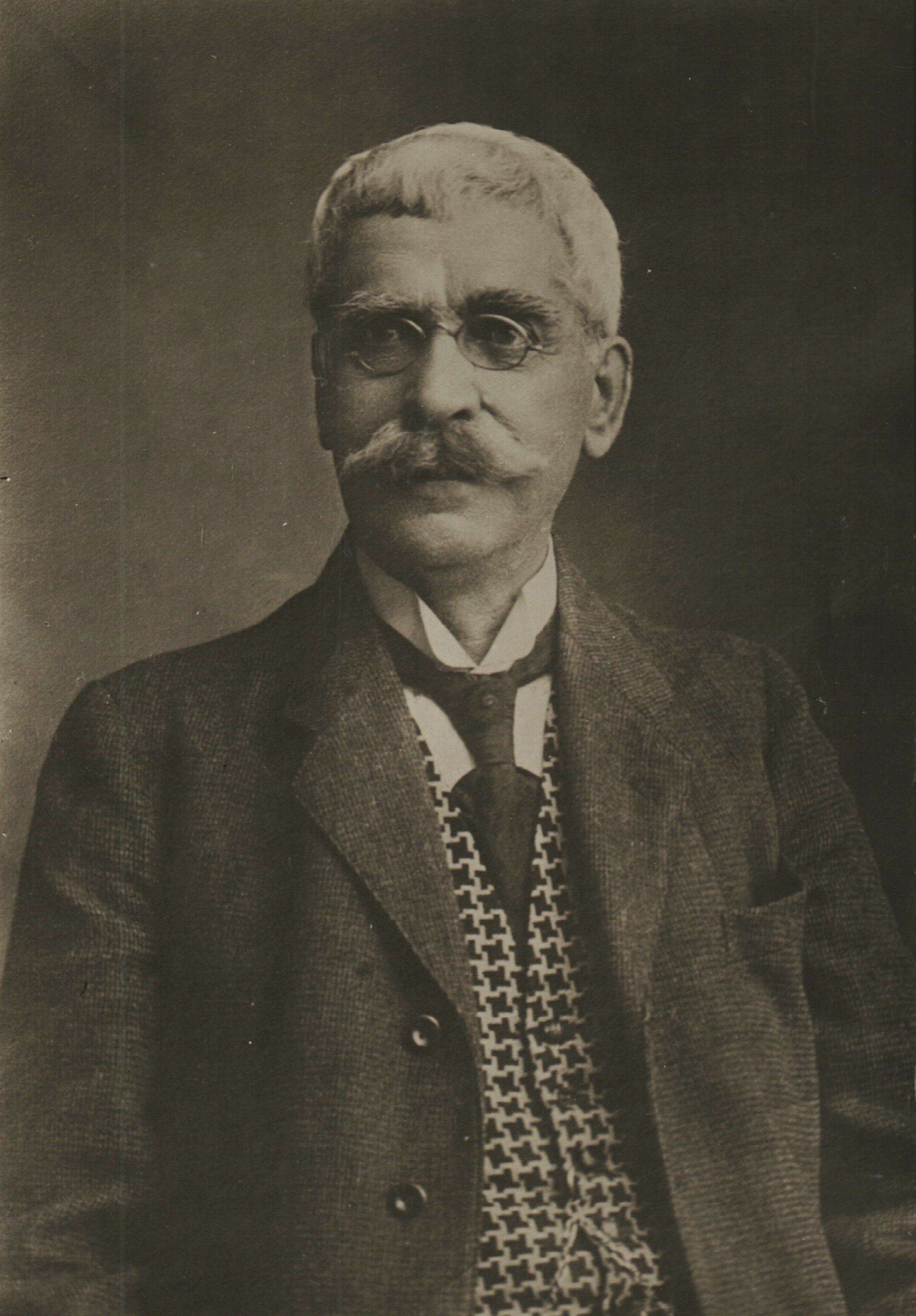 Bulgarian poet and writer Ivan Vazov (1850-1921)